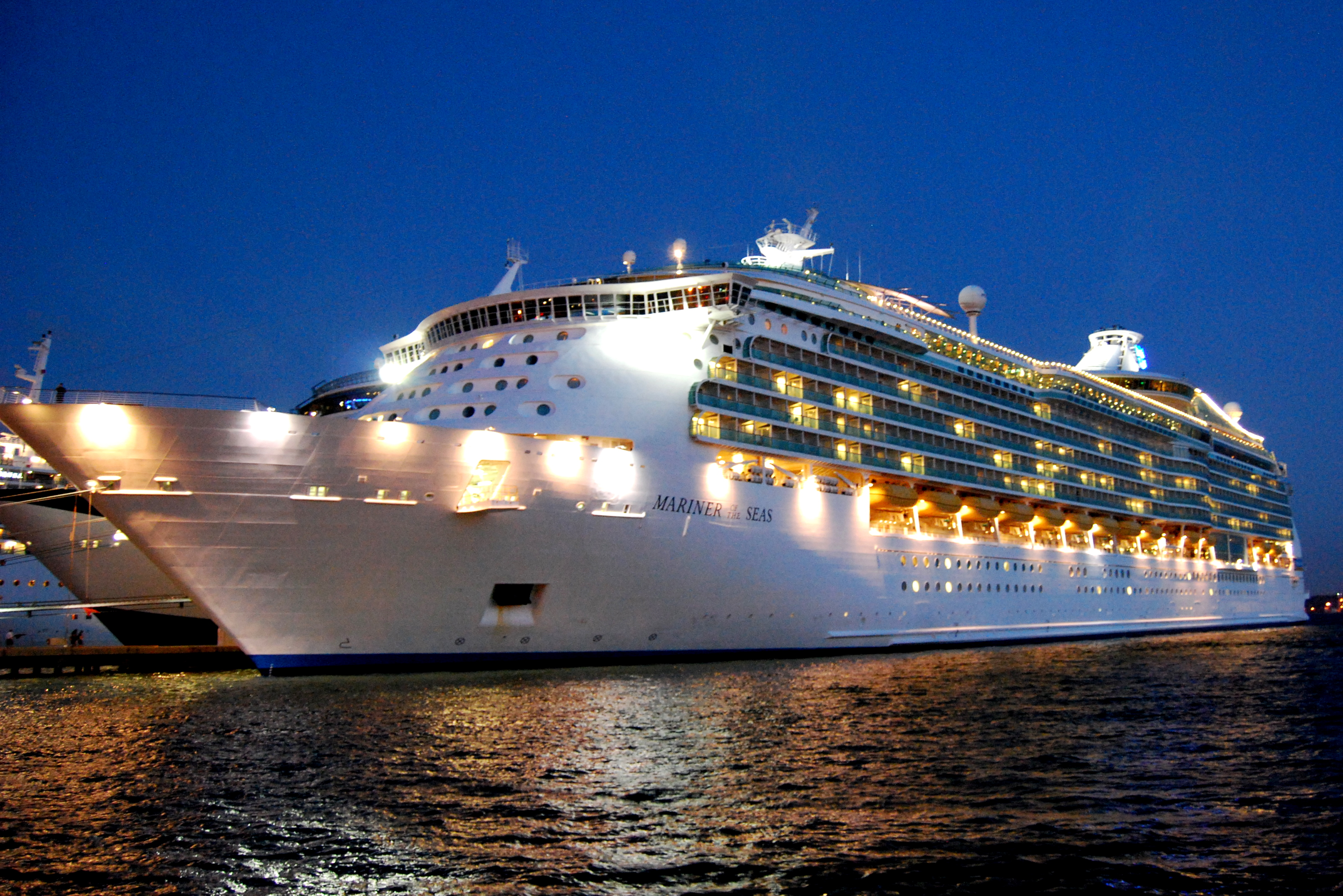 Royal Caribbean's "Mariner of the Seas" cruise ship docked in San Juan, Puerto Rico.